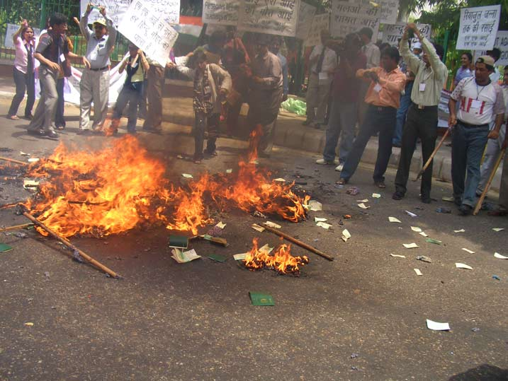 Passports thrown to fire